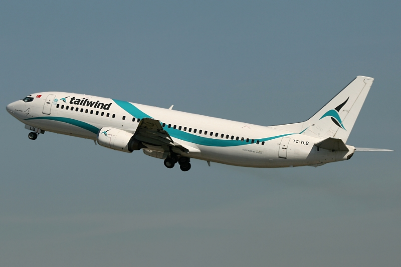 Tailwind Airlines Boeing 737-400 TC-TLB